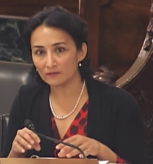 The Homeland Security Committee hosts a roundtable discussion entitled “Women and Terrorism” . Ms. Asra Nomani, Author of “Standing Alone: An American Woman’s Struggle for the Soul of Islam”